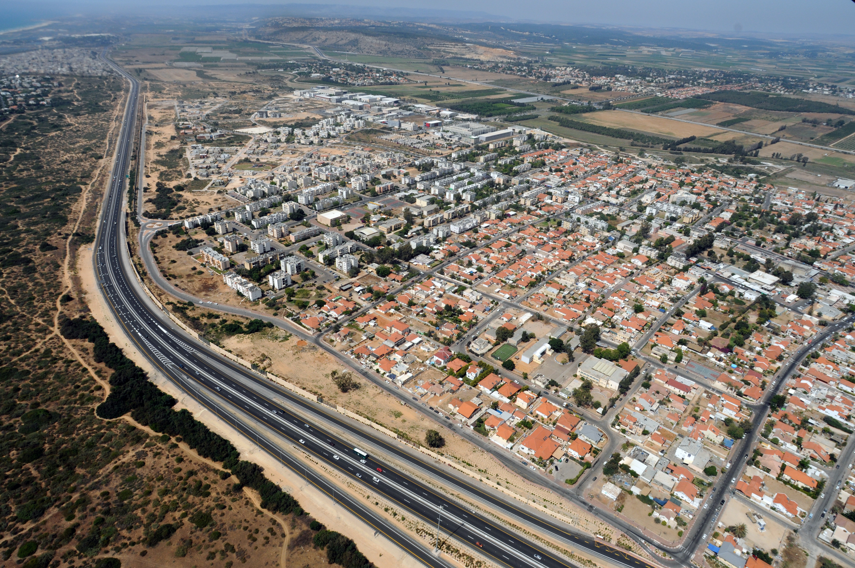 Israel by Jim Greenhill